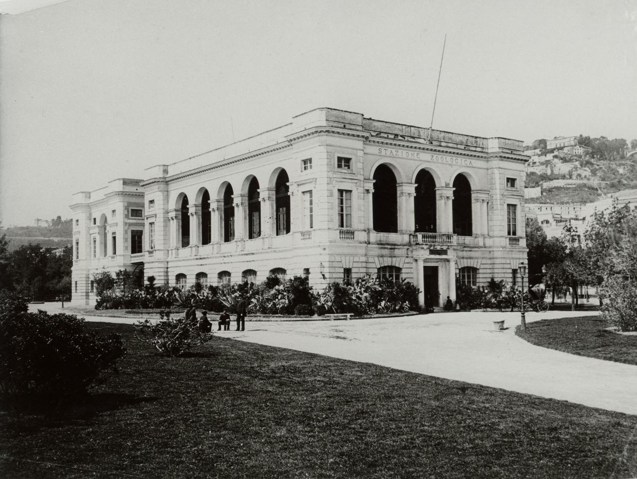 Zoological station at Napoli "The zoological station is situated on the shore of the bay in the Villa Nazionale, on the most beautiful and convenient site in Naples. One approaches by a long walk flanked by rows of stone-oaks whose overarching,intertwining branches produce a grateful shade from the brilliant sunshine. Here and there groups of phoenix palms, spreading,leafy palmettos and cycads, add the appropriate subtropical vegetation. The renaissance architecture is perfectly adapted to the uses of the station, while the beautiful structure fits into the scene as naturally as the palms themselves. The oldest of the three buildings (A) of the zoological station was opened in 1874 and is now chiefly occupied by the public aquarium (a) and the library (5). The second building (5), finished in 1886, is connected to the western end of the first by bridges and contains the department for collecting and preserving organisms as well as individual laboratories for zoologists." THE ZOOLOGICAL STATION AT NAPLES By Professor CHARLES LINCOLN EDWARDS THE POPULAR SCIENCE MONTHLY,SEPTEMBER, 1910 This photo was taken after the second building was finished in 1886 see plan File:PSM V77 D220 Plan of the first two buildings of the zoological station.png